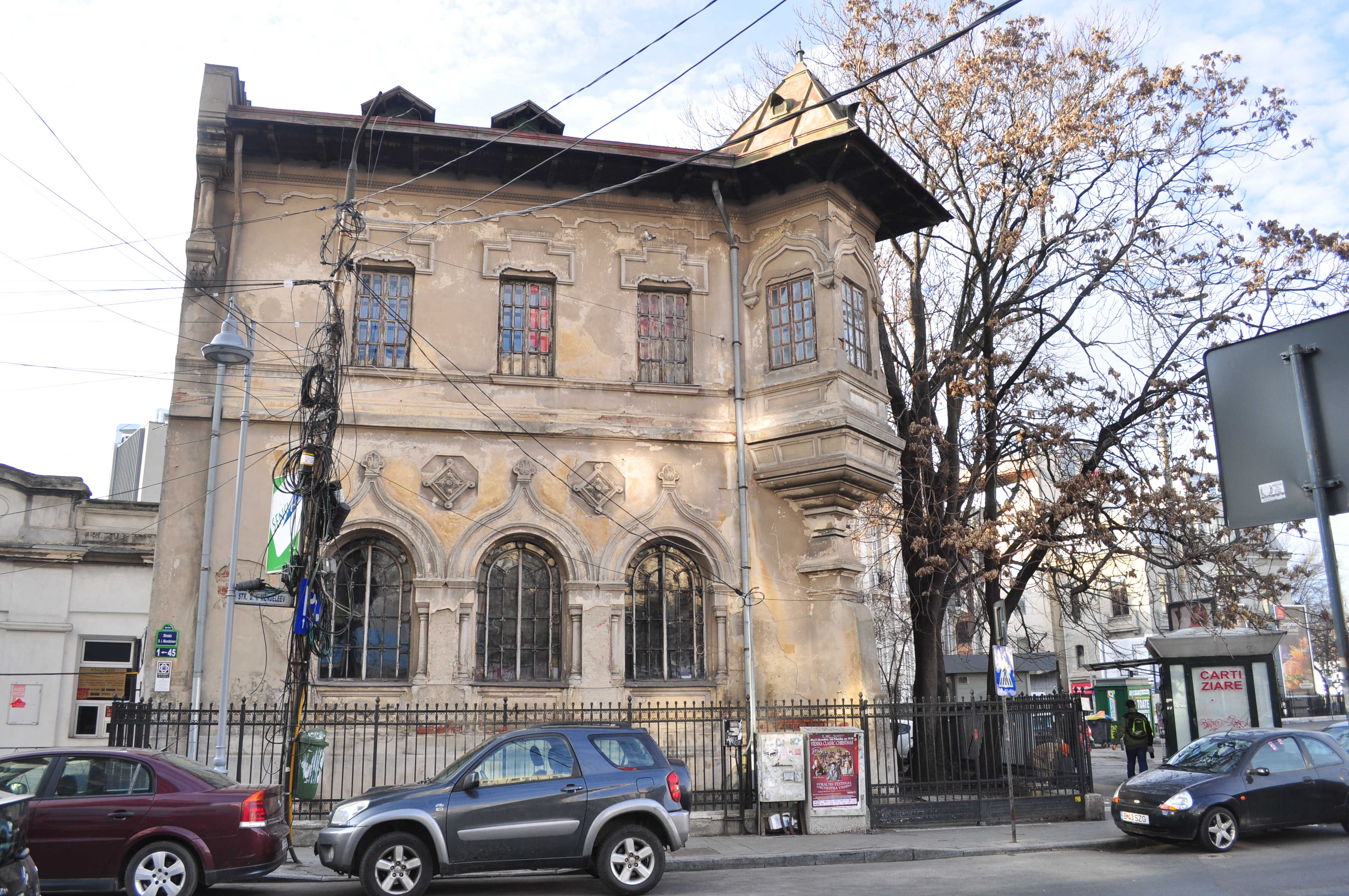 Casa Nicolae Petraşcu, Piața Romană, nr. 1, Bucharest, Romania.